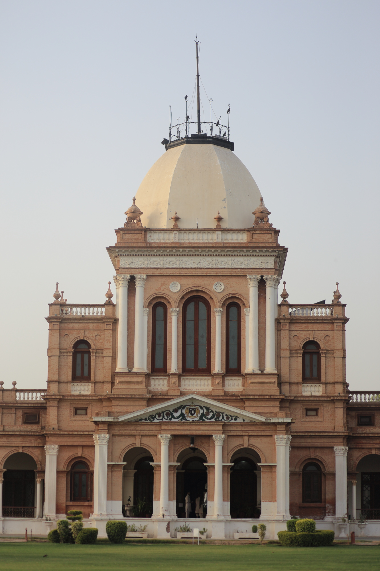 Noor Mahal This is a photo of a monument in Pakistan identified as the PB/U